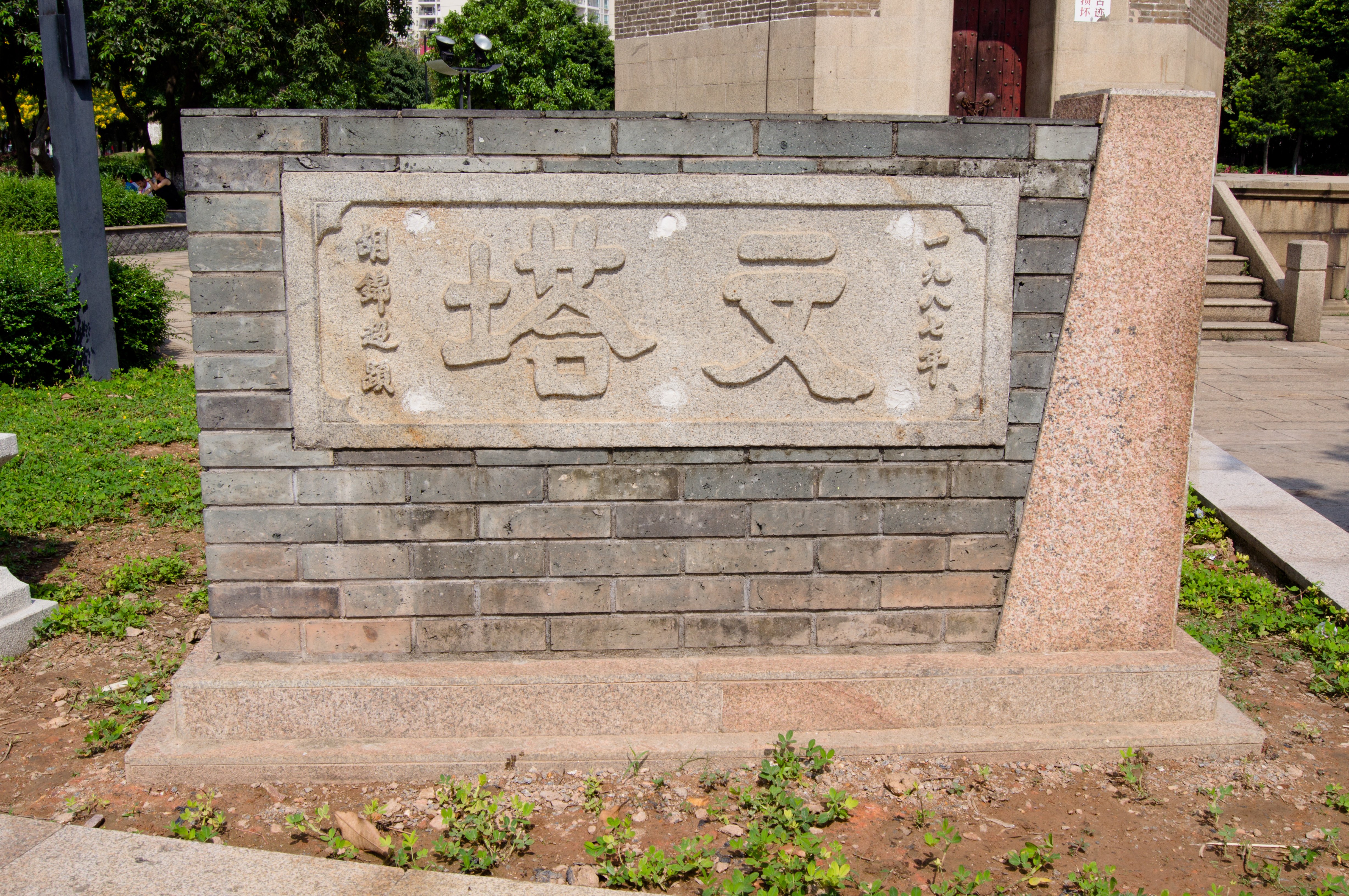 Stone plaque of Guizhou Wenta (Wen Tower), made by Hu Jinchao.